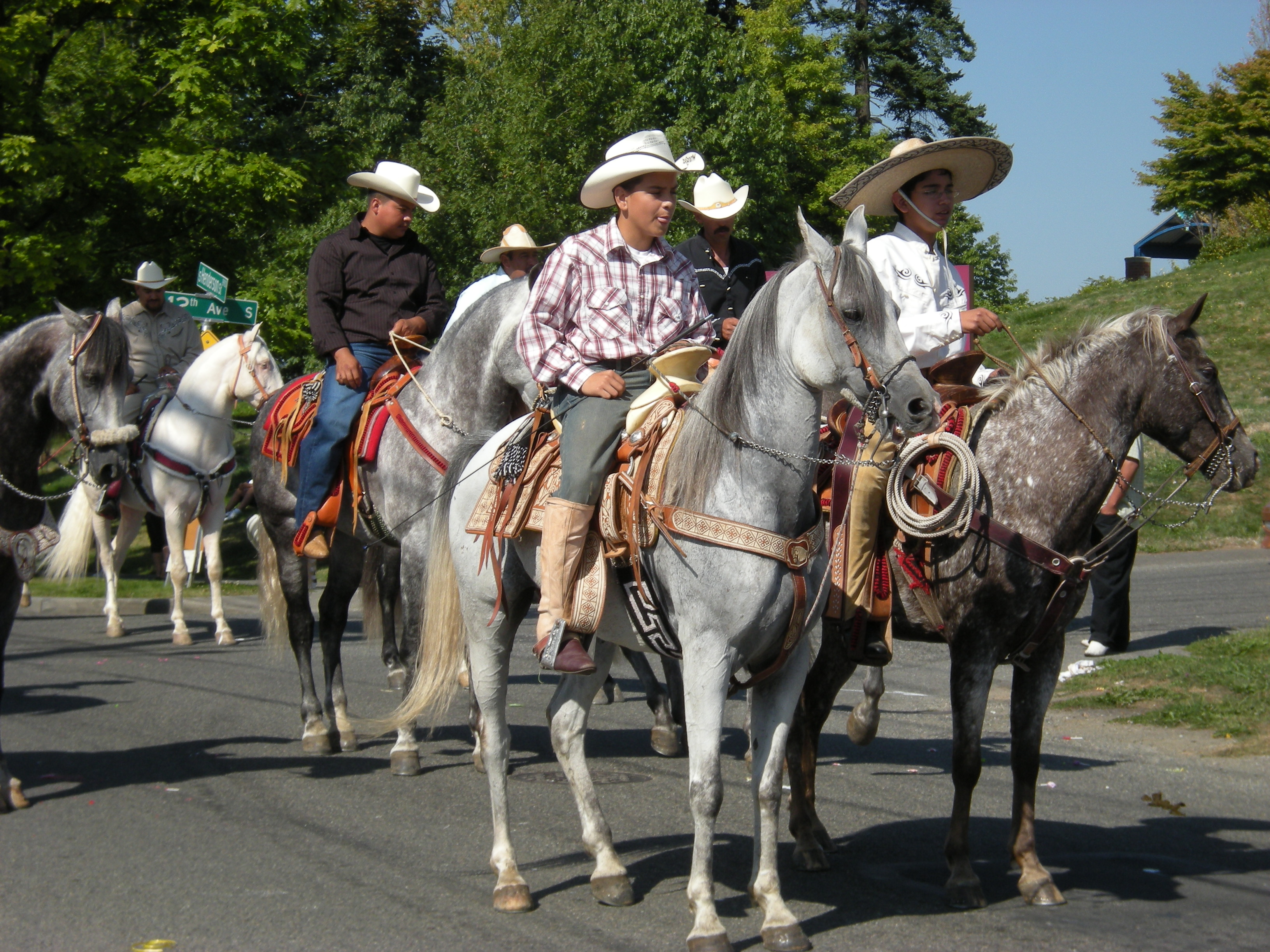 Some of the 80 or so riders (many in traditional Mexican dress) on horses, 2008 Fiestas Patrias parade, South Park, Seattle, Washington.